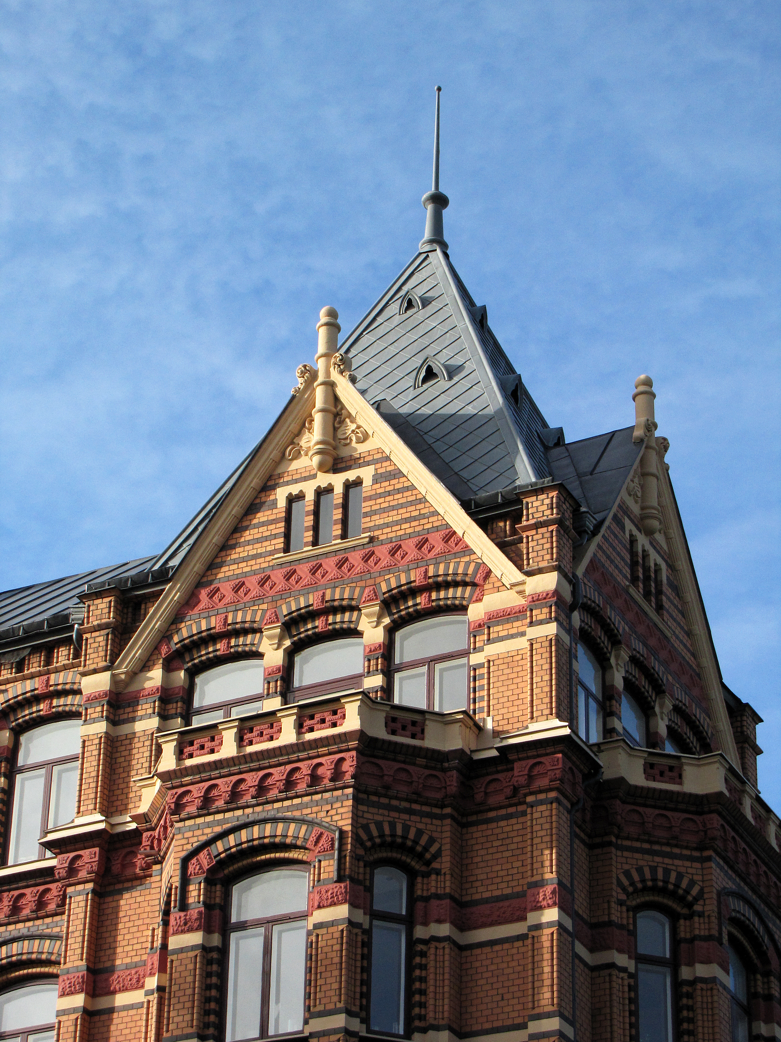 The "Rydboholm" block in Göteborg: the tower in the northern coner.